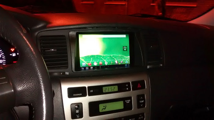 A preview of Android auto running inside a vehicle. (nexus 7)